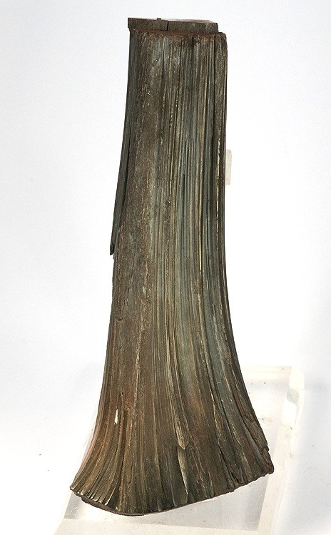 Hematite Locality: Montreal Mine (Ottawa; 33 Company Mine; Trimble; Odanah; Moore; Jupiter; Bourne; Sec. 33 Mine), Gogebic Range, Iron County, Wisconsin, USA (Locality at ) Size: 15.8 x 6.2 x 2.7 cm. An old-time and huge specimen of hematite, known in this form variously as "fans" or "tree trunks". The complete-all-around and pristine specimen is doubly terminated and has beautiful ribbing and a lustrous, gray/mahogany-brown patina. This piece hails from a classic and famous Wisconsin iron mine - the Montreal Mine in Iron County. Ex. George Robbe Collection, which was donated to the Seaman Museum following his death in 1963.